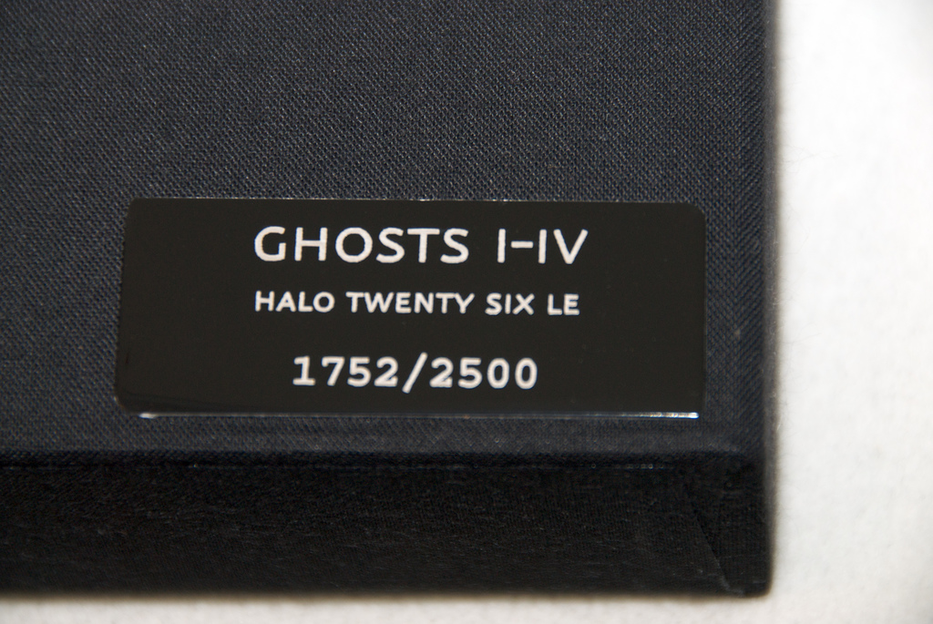 Close-up of the numbered plate from the "Ultra Deluxe Limited Edition" of Ghosts I–IV by Nine Inch Nails